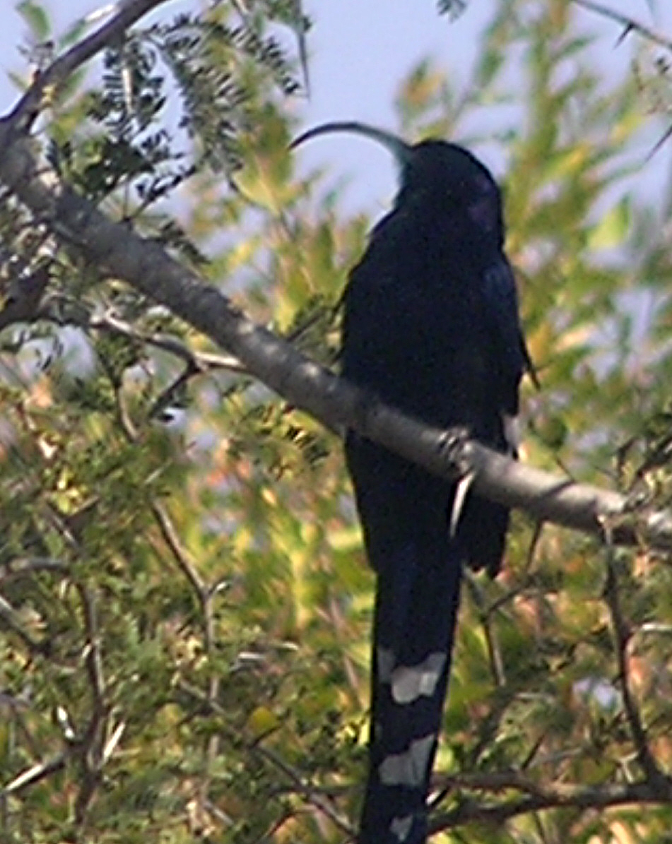 Common or greater Scimitarbill, Rhinopomastus cyanomelas Veillot, 1819 in Kruger Park, South Africa